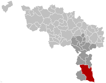 Map, municipality belgium Chimay